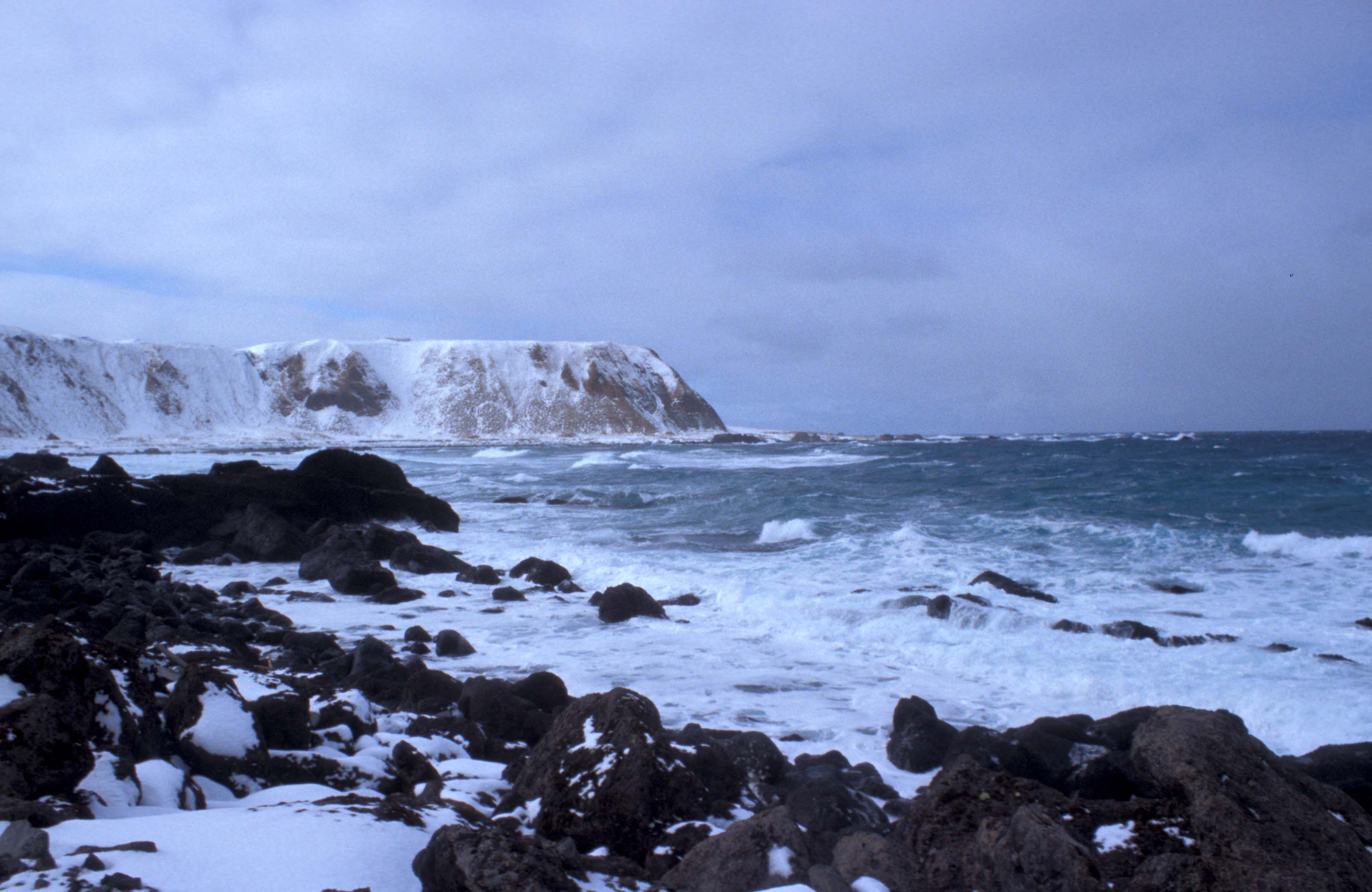 Shemya island Cable Bowl N shore [1]